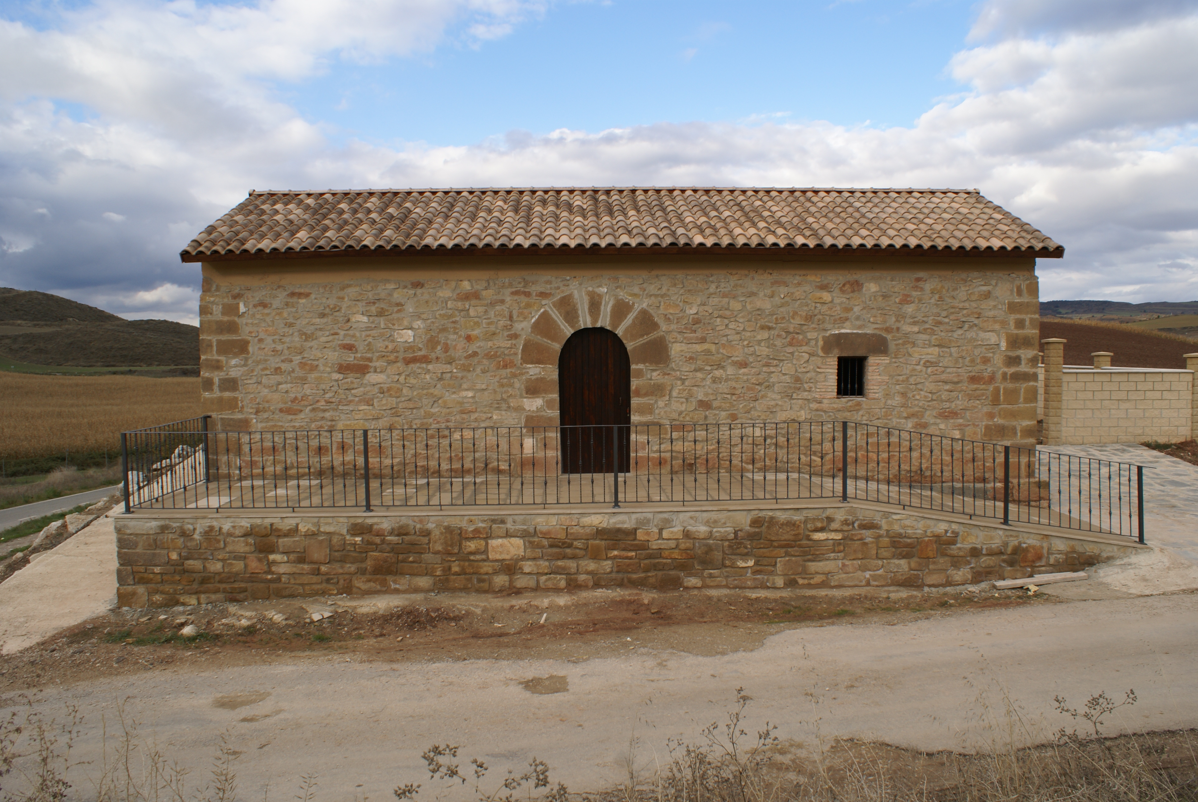 Ermita de San Nicolás de Bari 2010